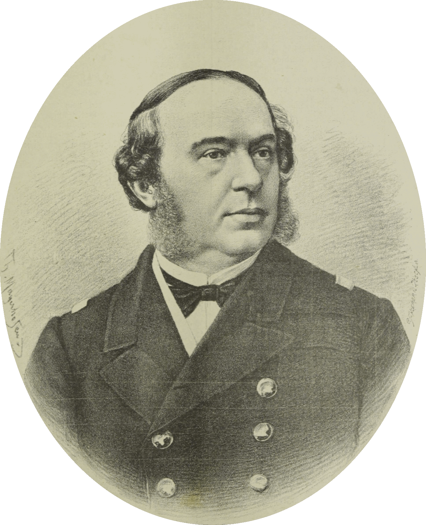 Heinrich von Littrow (1820–1895), Austrian sailor, cartographer and writer